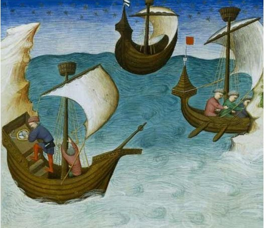 Medieval illumination showing a mariner consulting a compass aboard a ship. It is the first known depiction of the use of compass on board a ship. The illustration is from a 1403 manuscript copy of Jehan de Mandeville (John Mandeville), Le livre des merveilles (originally published c.1355-57). The 1403 manuscript is held by the Bibliotheque national de France in Paris, B MS fr 2810, fol.188v.